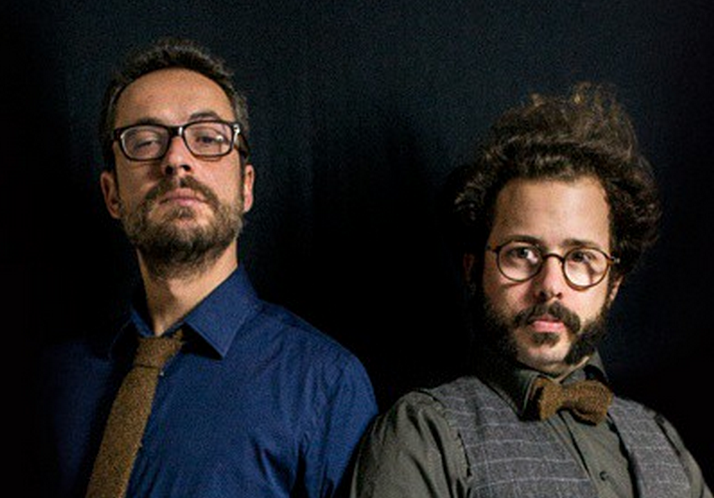 Los Martínez